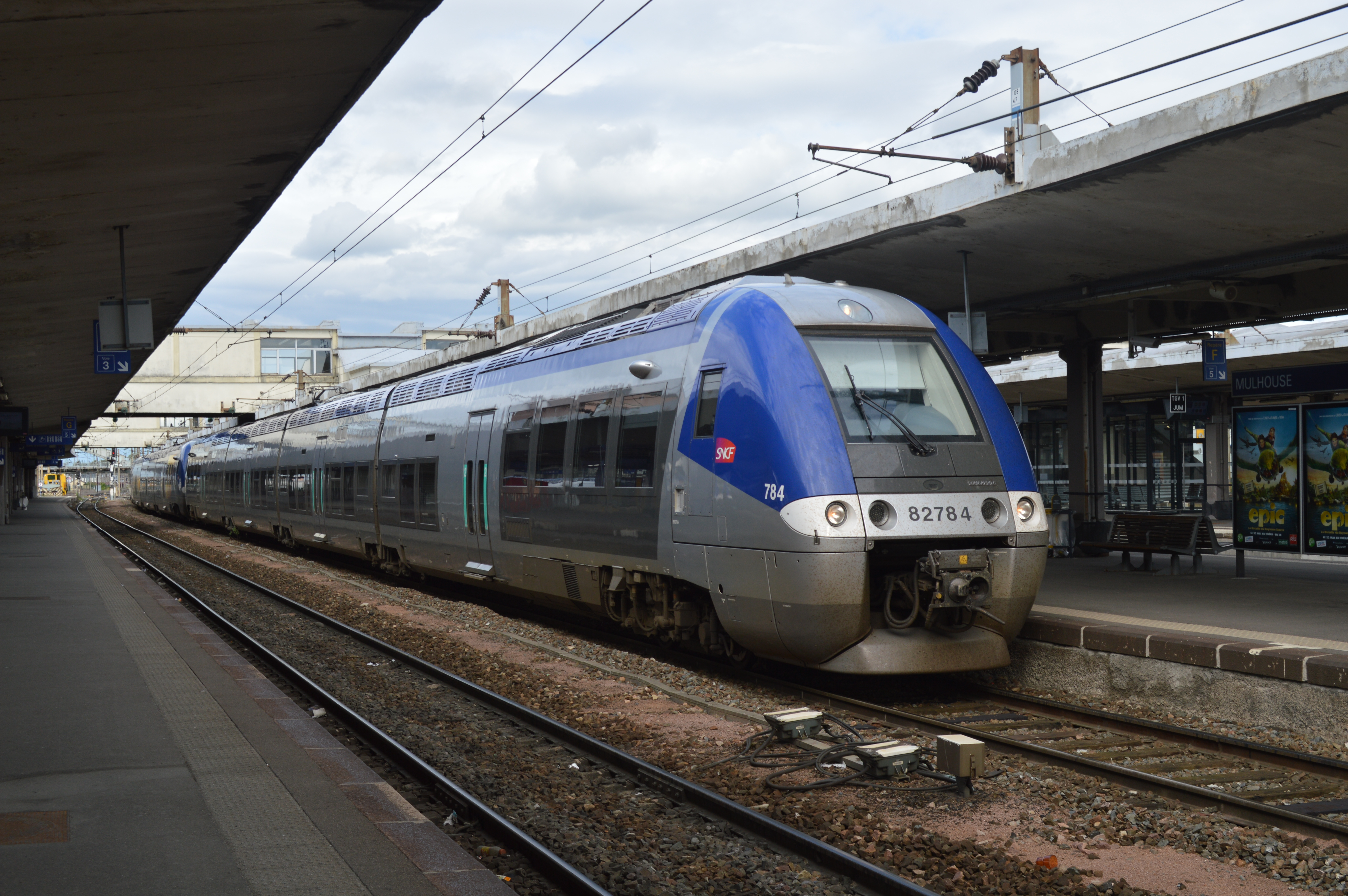 2013 Czech Republic Trip Day One A very logical concept is the BGC or Bibi which is dual electric (25kV AC and 1500V DC) as well as diesel power. 141 of these 4-car sets have been built by Alstholm between 2004 and 2011 and have replaced many of the older EMU, DMU and loco worked sets. Seen here at Mulhouse Ville on 11 May 2011 set B82783/784 is seen on a working on the Basel to Strasbourg line.